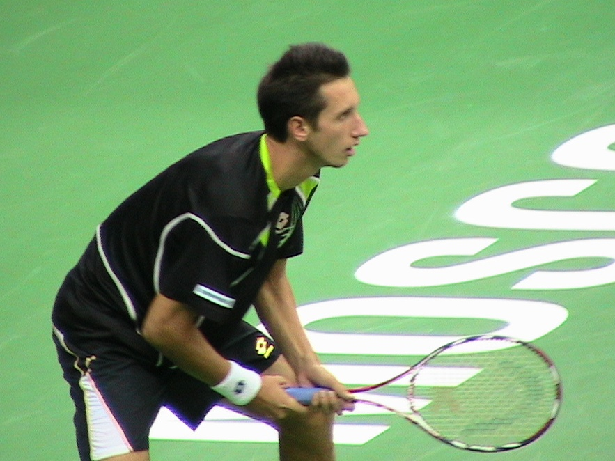 Ukrainian tennis player Sergiy Stakhovsky at 2009 kremlin Cup in Moscow. 2nd round match vs Fabrice Santoro (FRA)